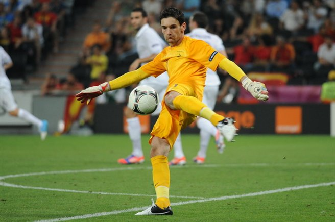 Hugo Lloris at Euro 2012 match Spain-France